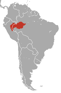 Moustached Tamarin (Saguinus mystax) range